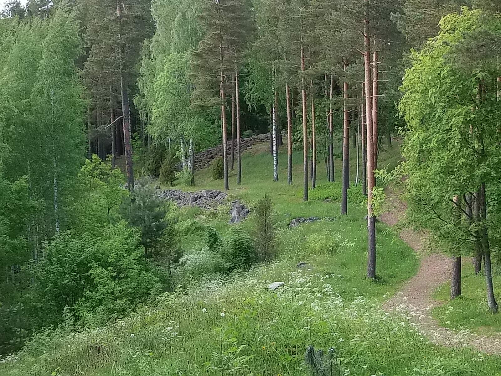 Rapola castle area.